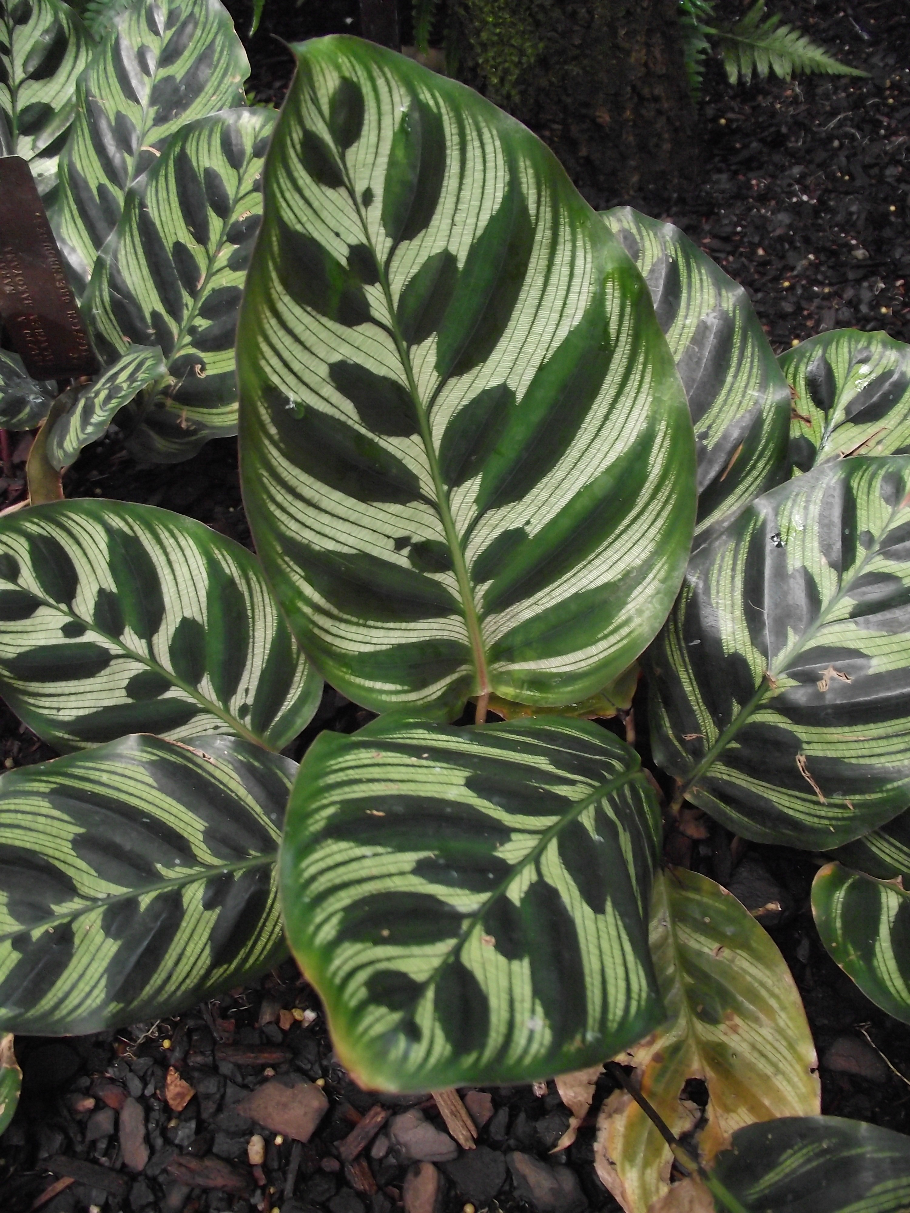 Calathea makoyana at New York Botanical Garden, Bronx, NY, USA